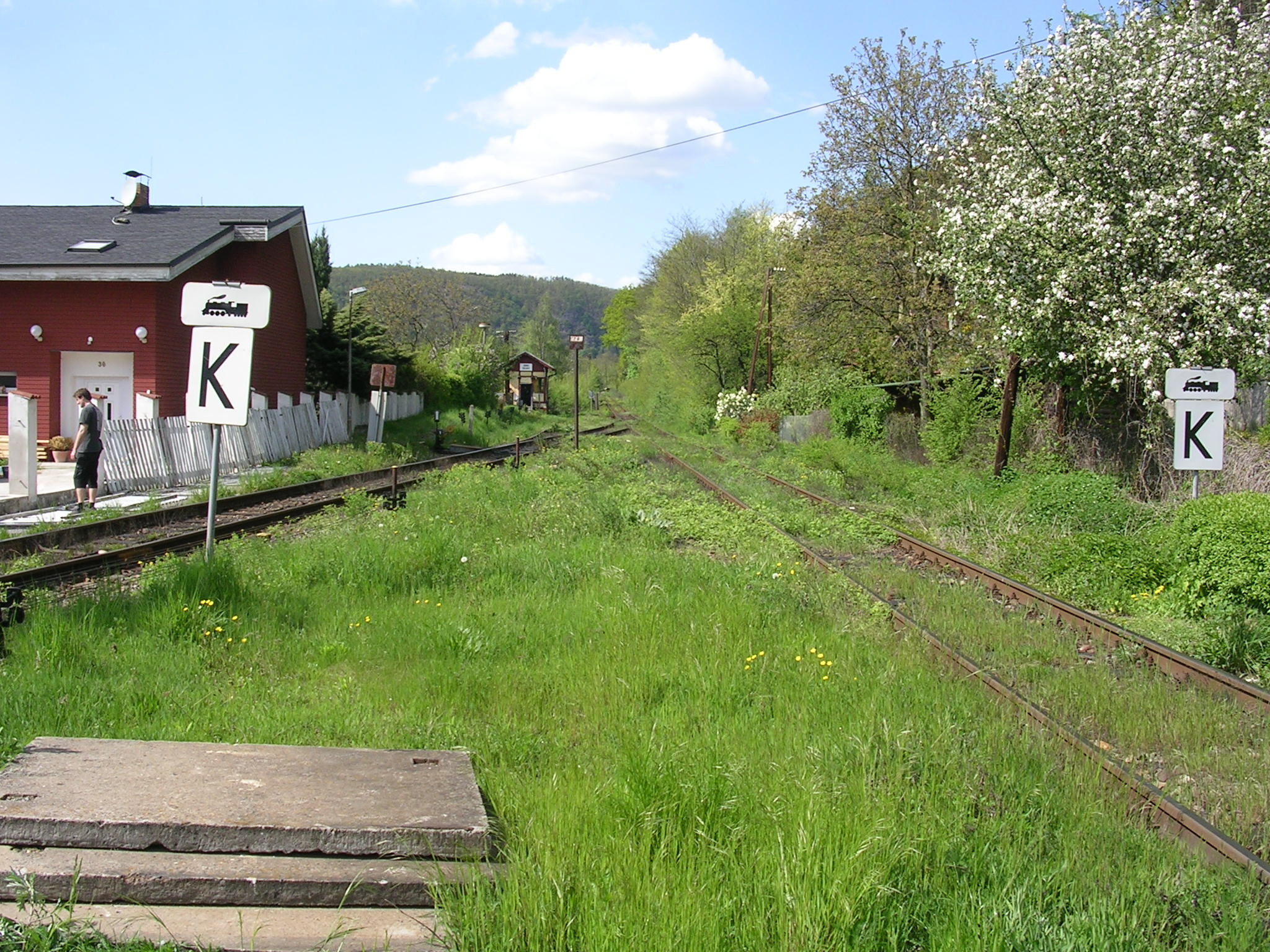 Vrané nad Vltavou, the Czech Republic.